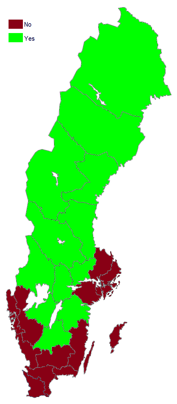 Swedish prohibition referendum results by county 1922